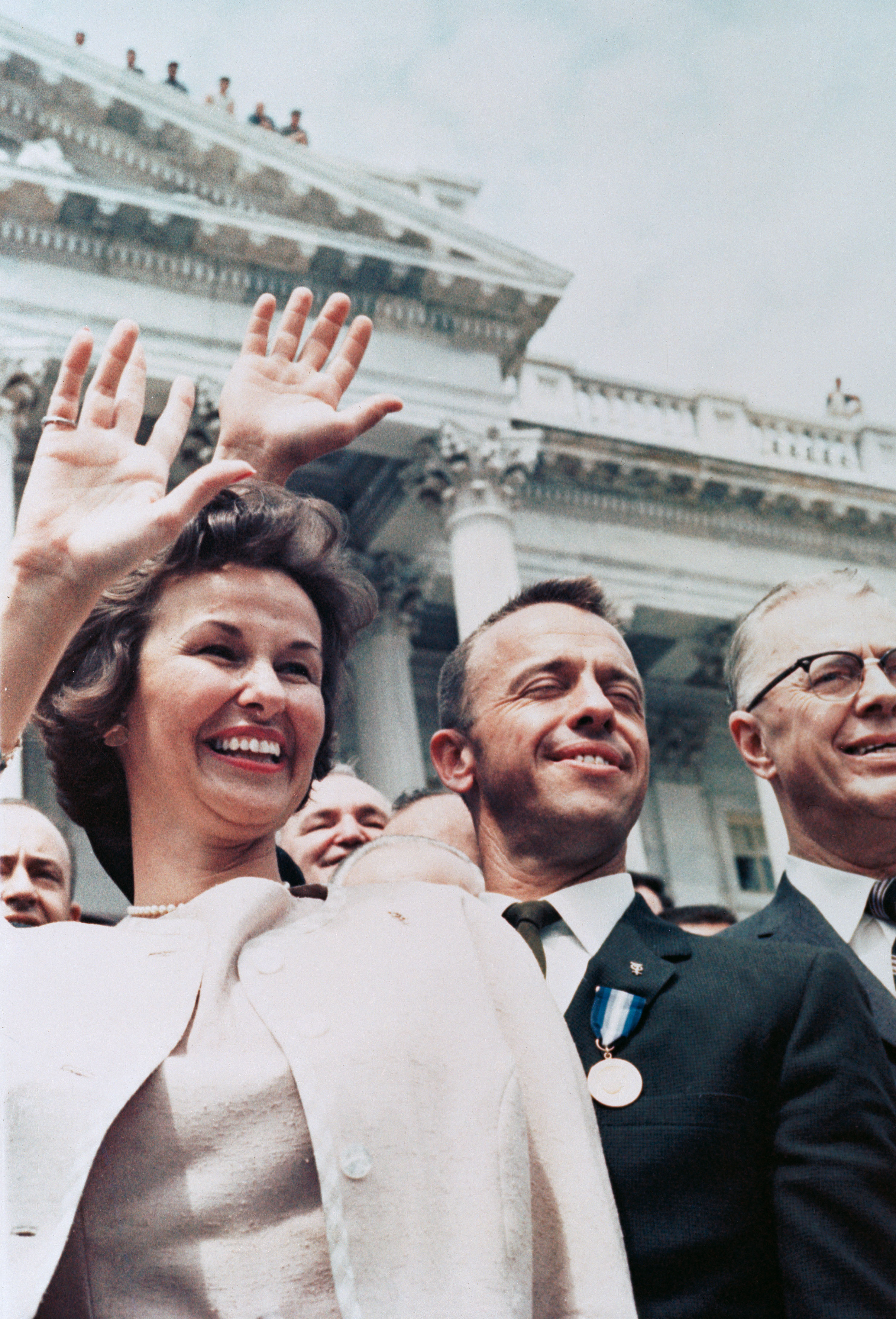 S88-31388 (8 May 1961) --- Astronaut Alan B. Shepard Jr. (center), along with wife Louise, waves to a crowd outside the U.S. Capitol building. Shepard, Mercury-Redstone 3 astronaut, had earlier briefed Congress on the first U.S. manned spaceflight -- a 15-minute suborbital mission on May 5, 1961, aboard the Freedom 7 capsule. (NASA Hq. Photo No., MR3-49) Photo credit: NASA or National Aeronautics and Space Administration